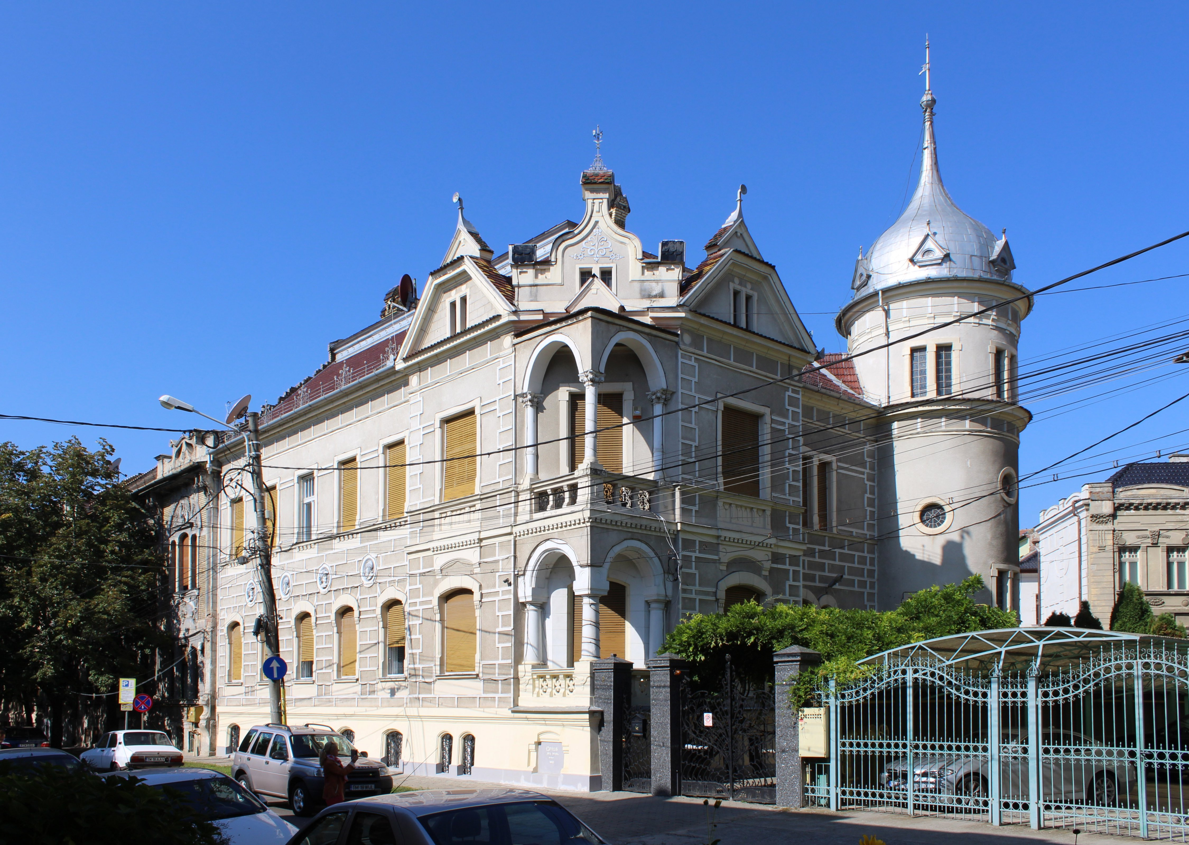 Emil Szilárd House, Timișoara, Romania, built 1905